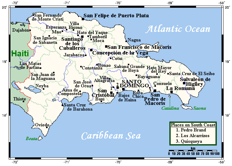 A map showing the Dominican Republic's cities and main towns. If the article List of cities in the Dominican Republic can be taken seriously, the map shows every town and city in the Dominican Republic with a population of 15,000 or more.